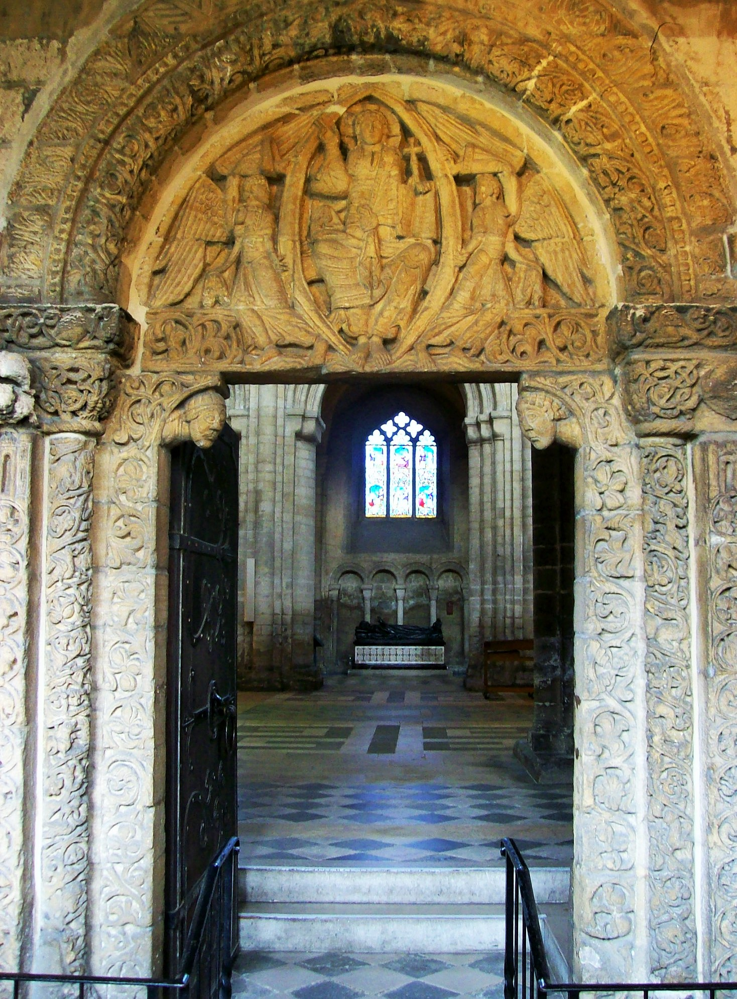 The Dean's Door. Ely Cathedral